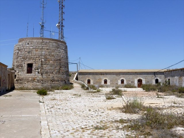 English work in the Castle of San Julian, in Cartagena (Spain). 1812